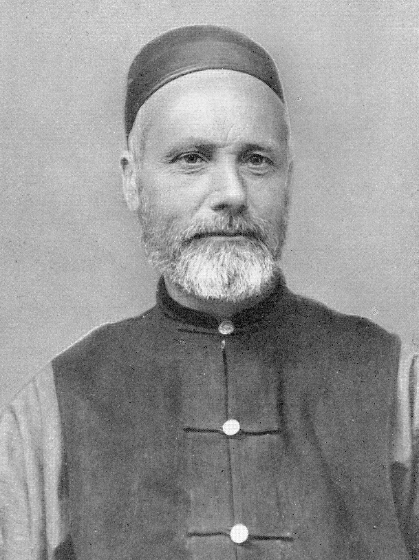 Source: James Gilmour of Mongolia by R. Lovette M. A.